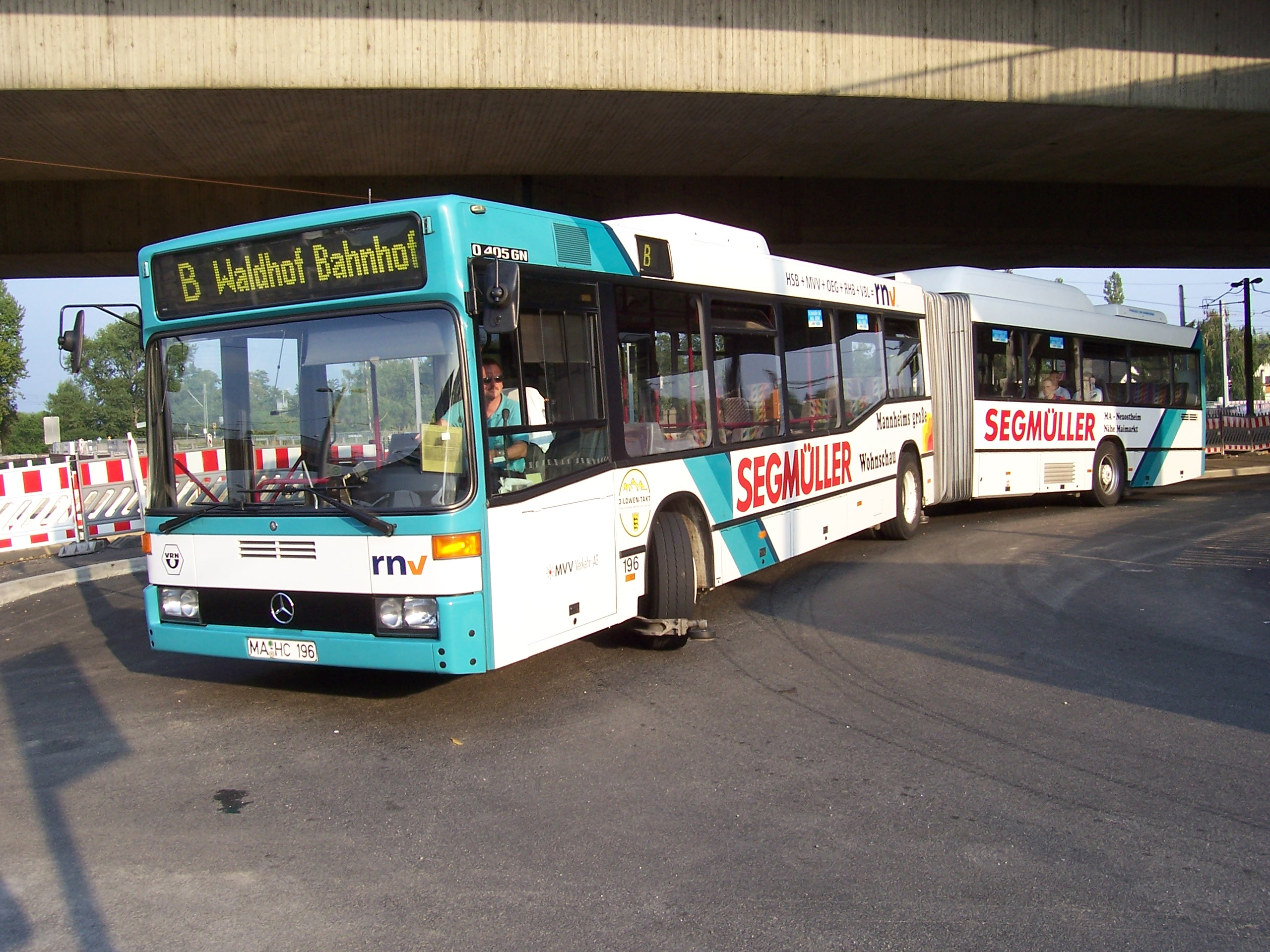 Ein Mercedes-Benz O 405 GN bus in Mannheim-Neuostheim, Germany